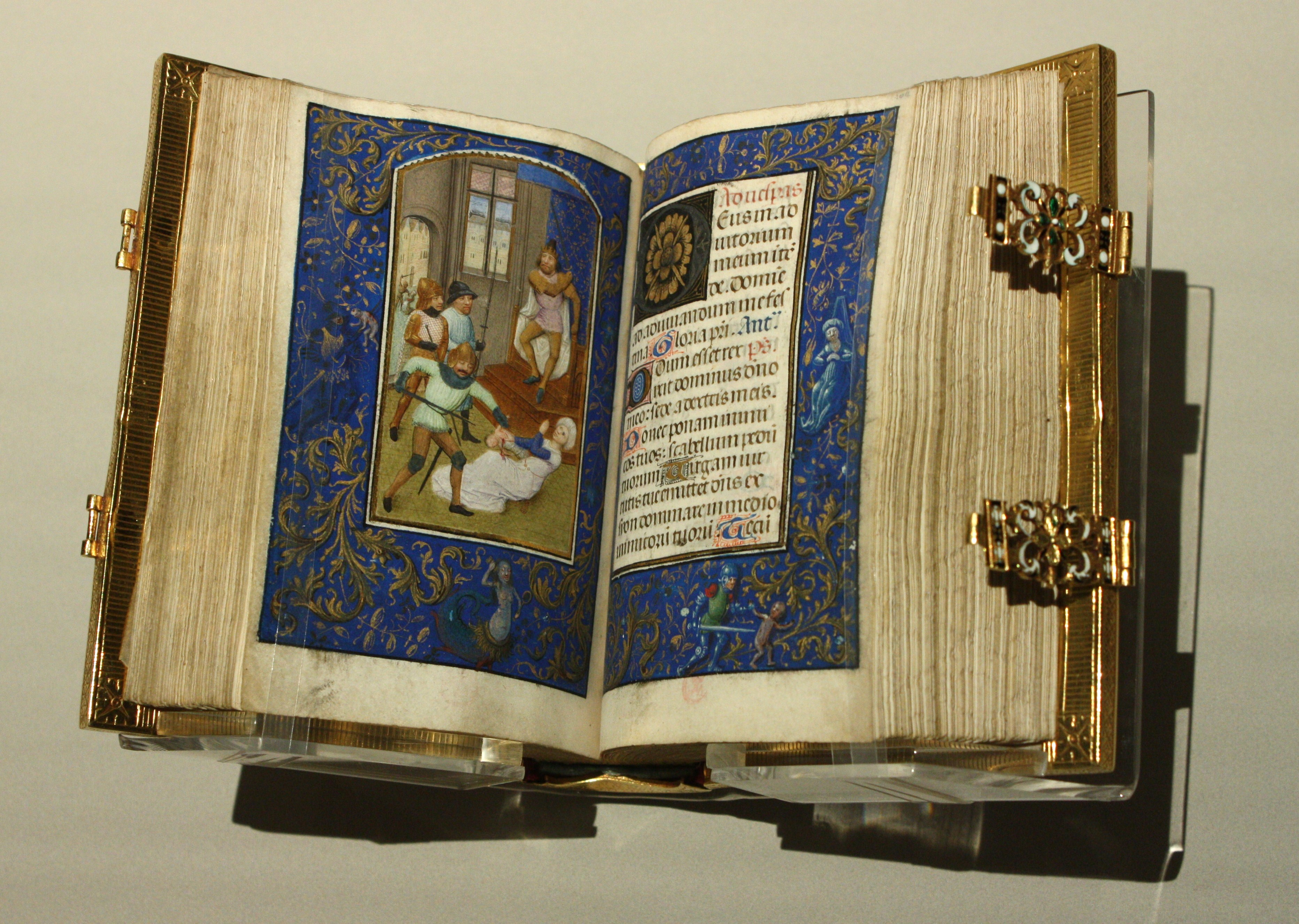 Manuscript Book of Hours About 1480 Belgium, Bruges Folios 103v & 104 Vespers with The Massacre of The Innocents in Marmion Style, with borders in Fitzwilliam 268 Style The Simon Marmion Book of Hours Left page shows King Herod ordering his soldiers to kill the first born, with one soldier in the foreground killing the baby of a woman who pleads for its life. Through the doorway onto the courtyard beyond is another soldier doing the same thing. Page on right of gothic style text with illuminated initial letter D with large golden flower device in gold on black. Borders of both pages with decorative flowers, leaves, acanthus, in gold on a deep blue ground with figures of knights, a mermaid, a soldier killing a child, and a seated woman. Salting Bequest Collection ID: [none MSL/1910/2384] This photo was taken as part of Britain Loves Wikipedia in February 2010 by Valerie McGlinchey.